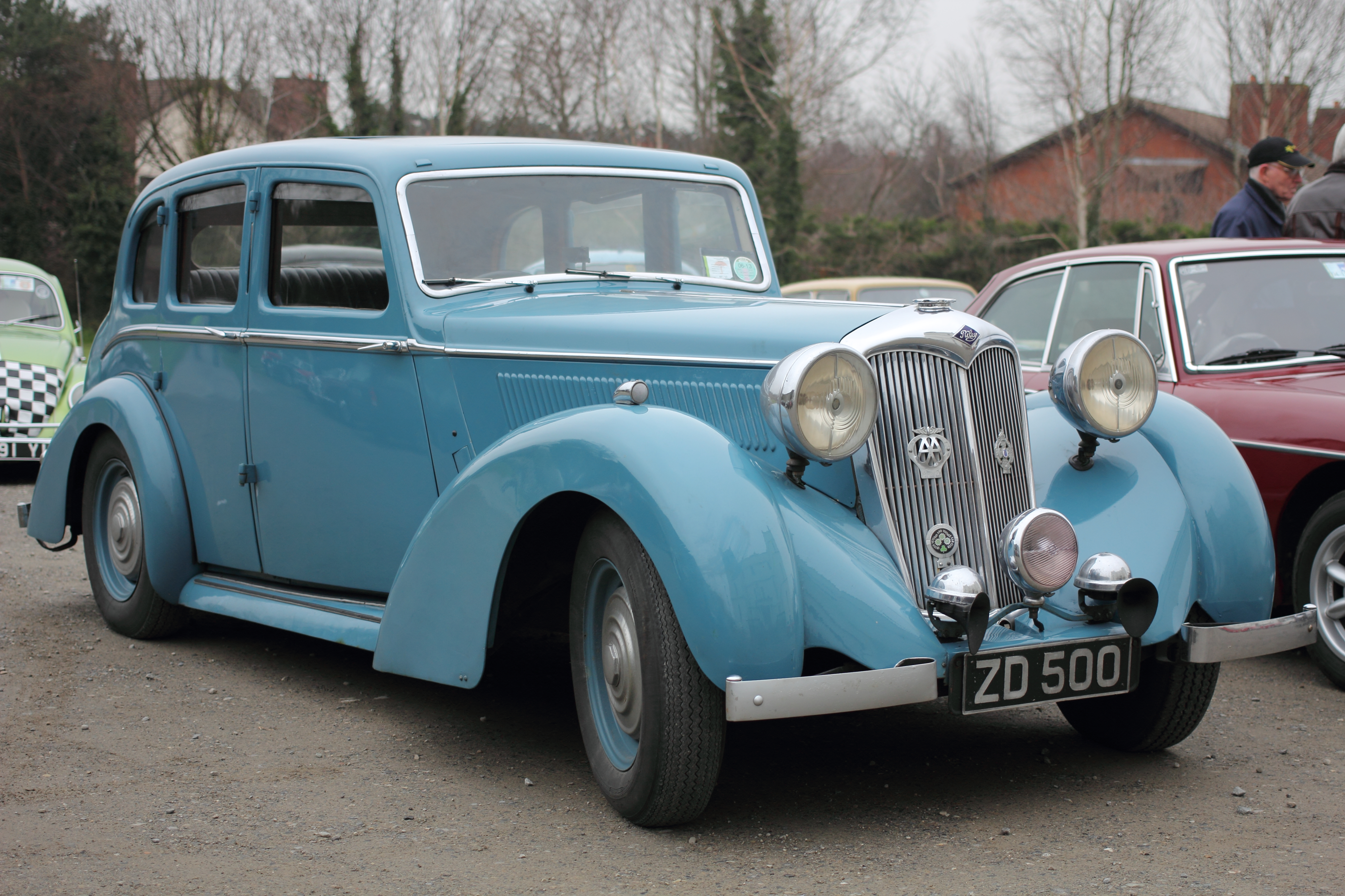 Riley 12 Rathfarnham Castle, Dublin